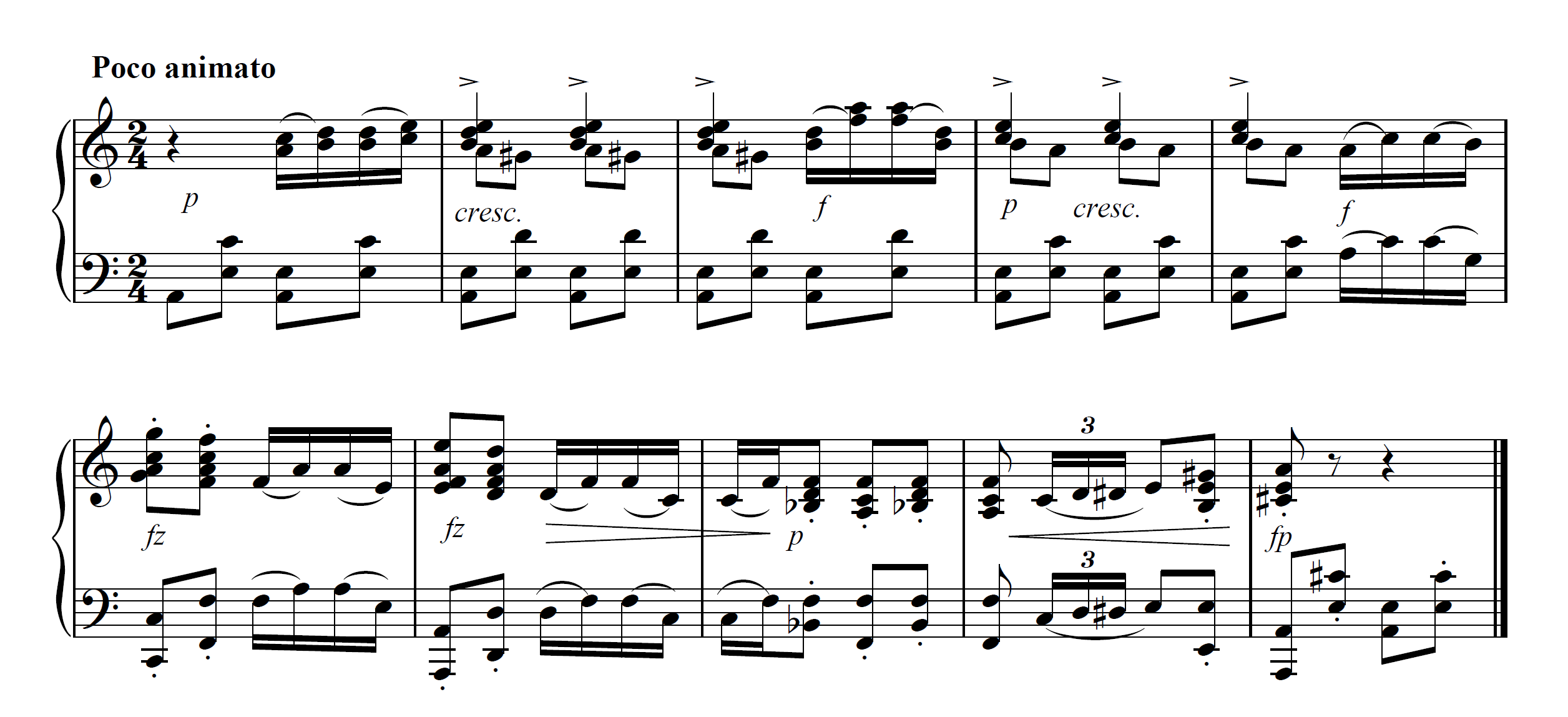 The main theme from the third movement of Edvard Grieg's Piano Concerto in A minor, Op. 16.